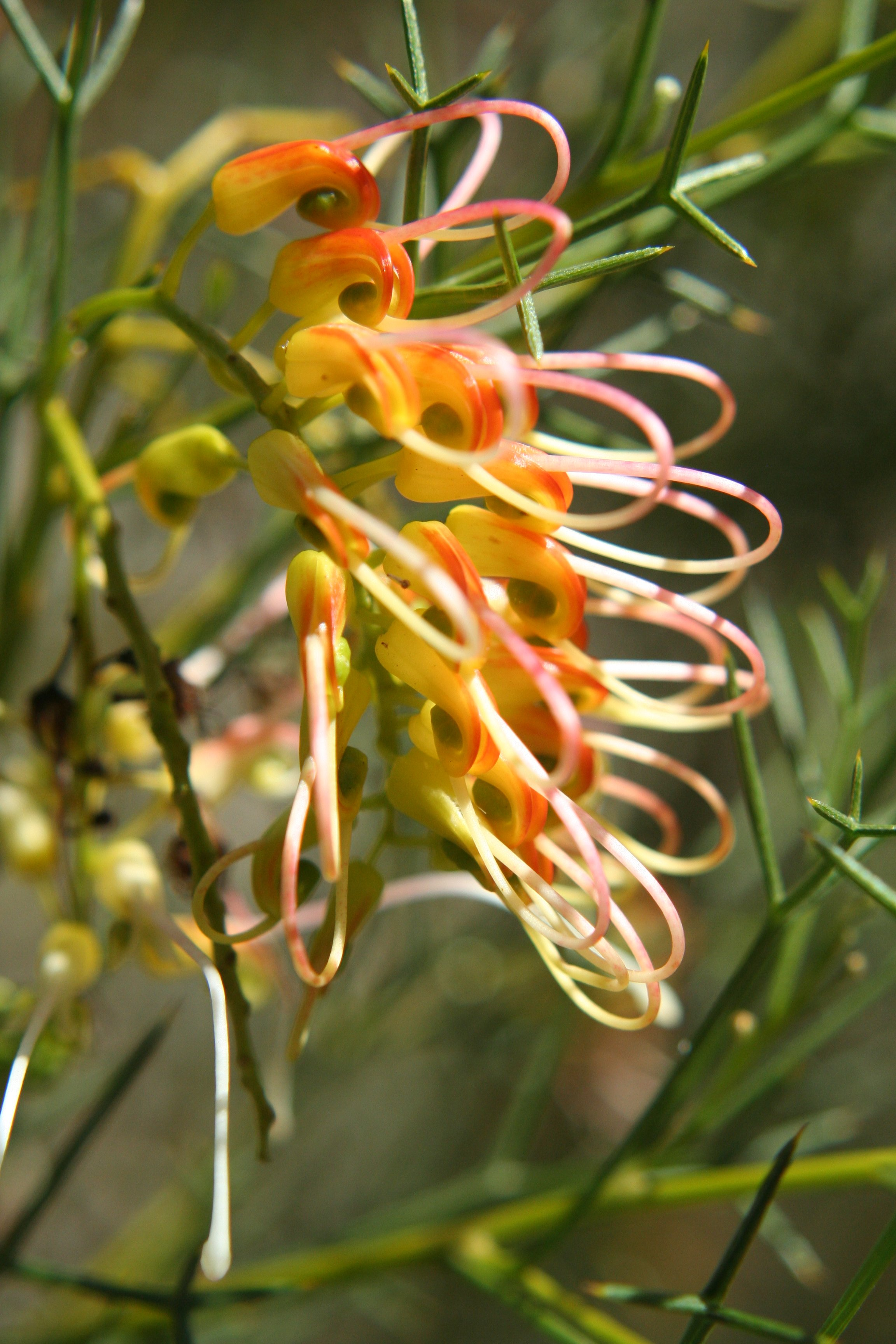 Flower of Grevillea dielsiana